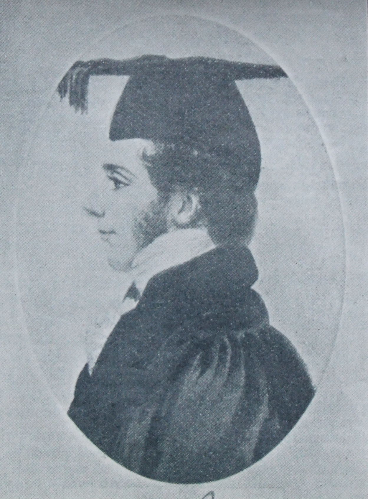 Portrait of Welsh-language poet and hymnwriter Daniel Evans ("Daniel Ddu o Geredigion") (1792-1846). Reproduced in the volume Gwinllan y Bardd (Llanbedr Pont Steffan, 1906), a collection of his poems.